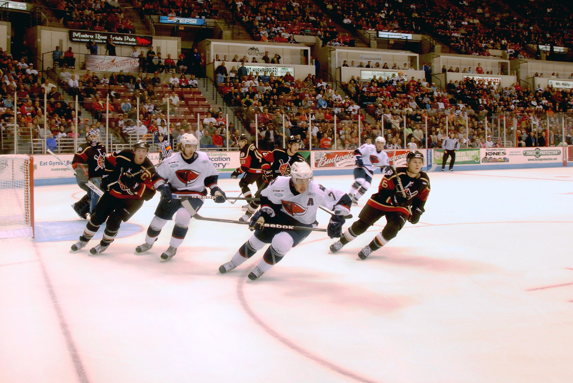 Members of the South Carolina Stingrays and Wheeling Nailers hockey teams dart away from the goal after the puck.